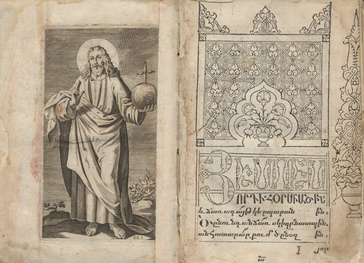 "Jesus Son" (Armenian: Հիսուս որդի), first Armenian book published in Amsterdam by Matheos of Tsar.